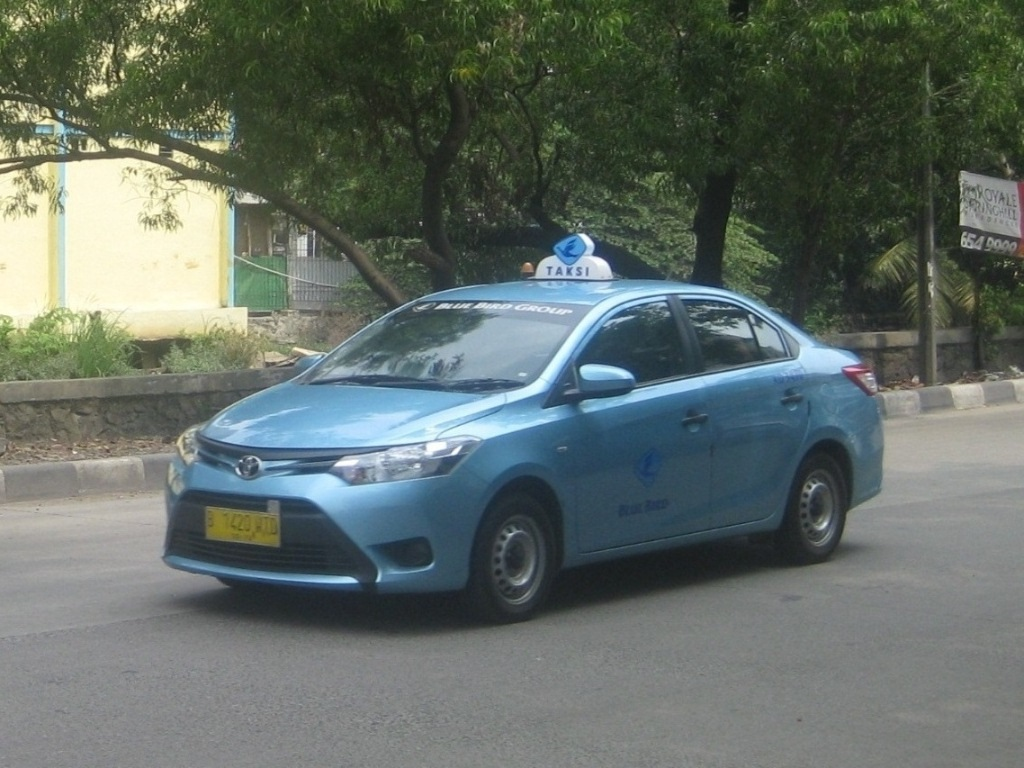 Toyota Vios Limo 1.5 (NCP150) Blue Bird Taxi, photographed in Jakarta, Indonesia.